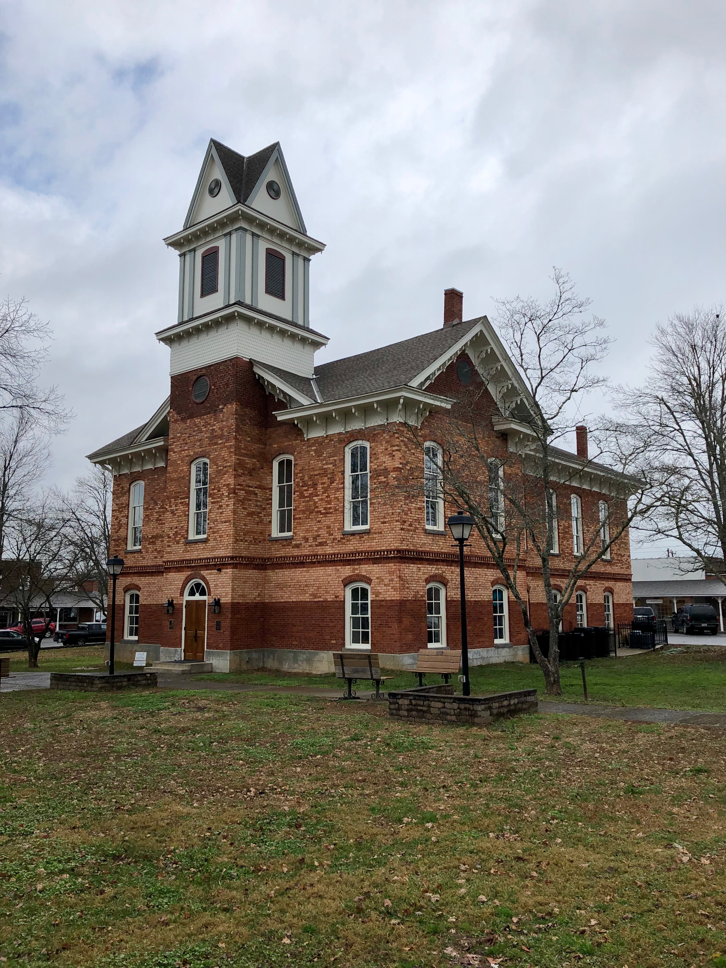 Clay County Courthouse, Hayesville, NC